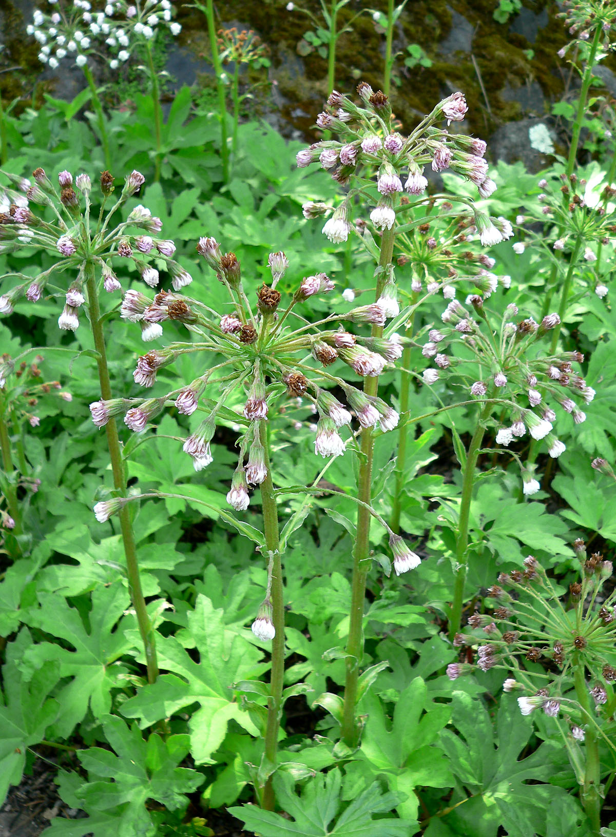 Photo of Petasites frigidus var. palmatus at the Regional Parks Botanic Garden, Berkeley, California